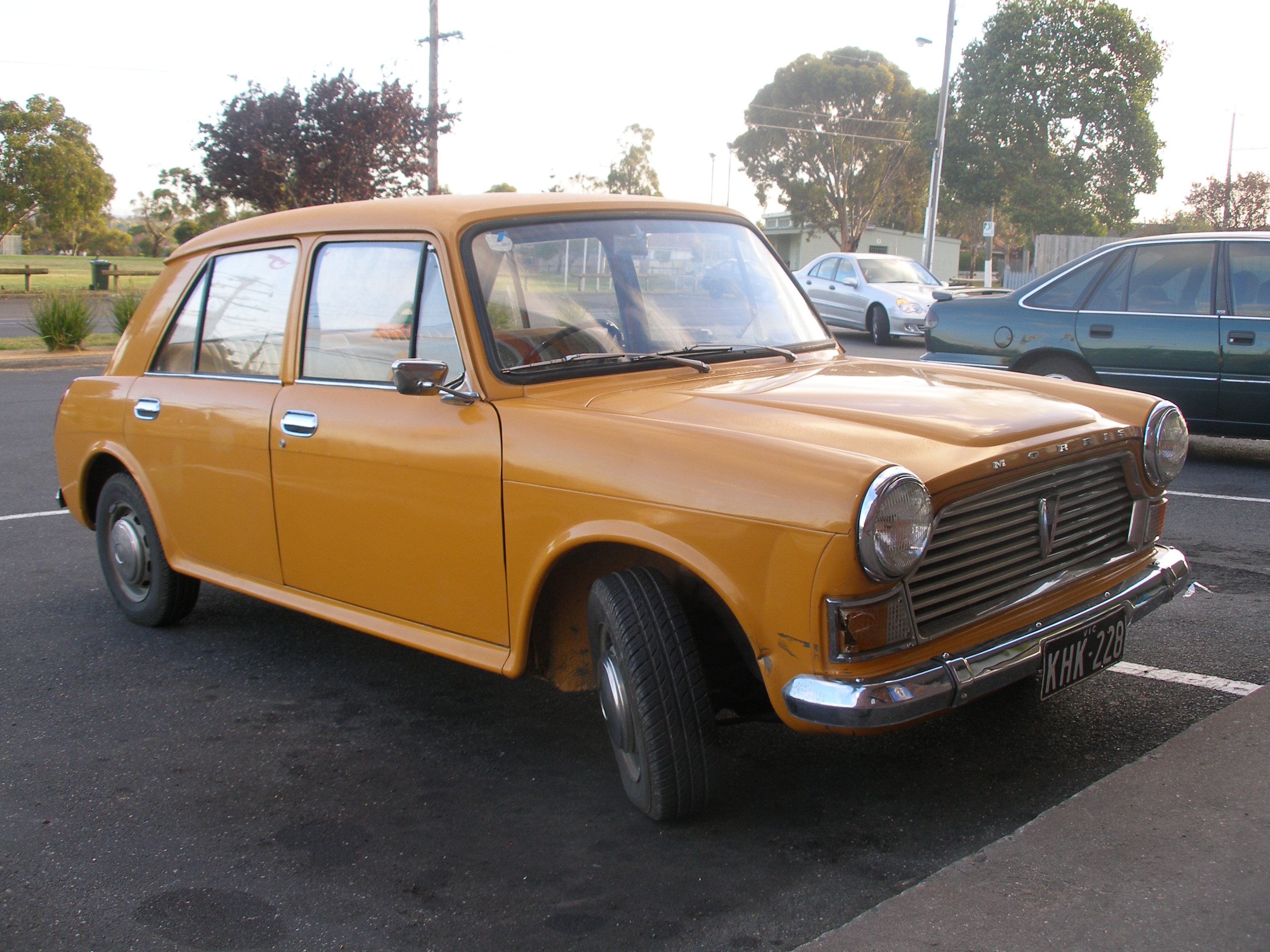 Morris 1500